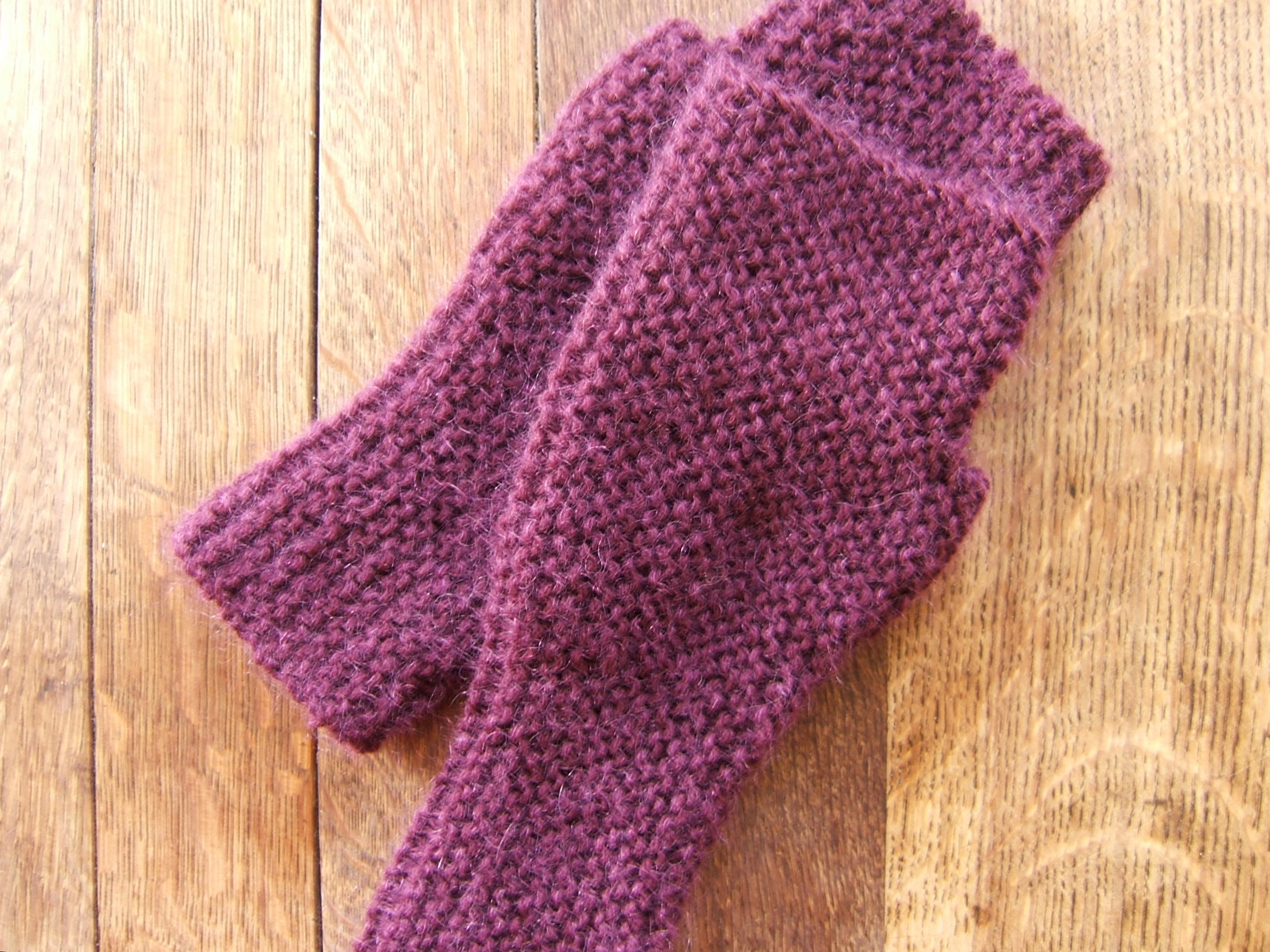 Garter stitch hand-knitted mittens